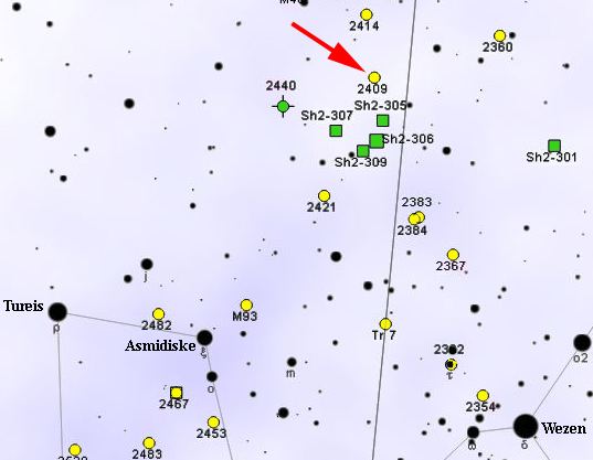 Map of NGC 2409